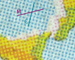 Close-up of CMYK print raster. From a newspaper weather report. The rasters are misaligned by about two dots, but that makes it very clear how the colors mix with each other. It should show Sicily and Calabria.